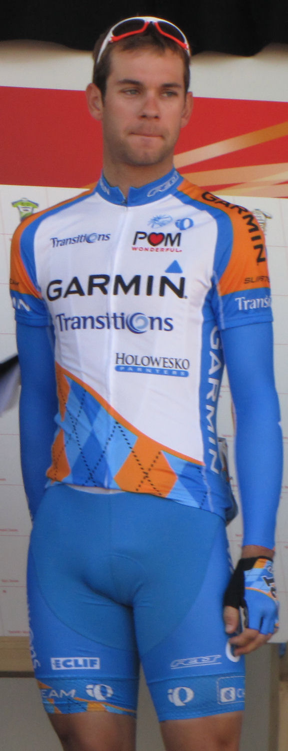 Martijn Maaskant